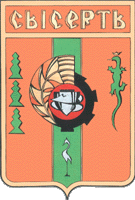 The old coat of arms of Sysert, featuring the Lizard Queen from Pavel Bazhov's tale.